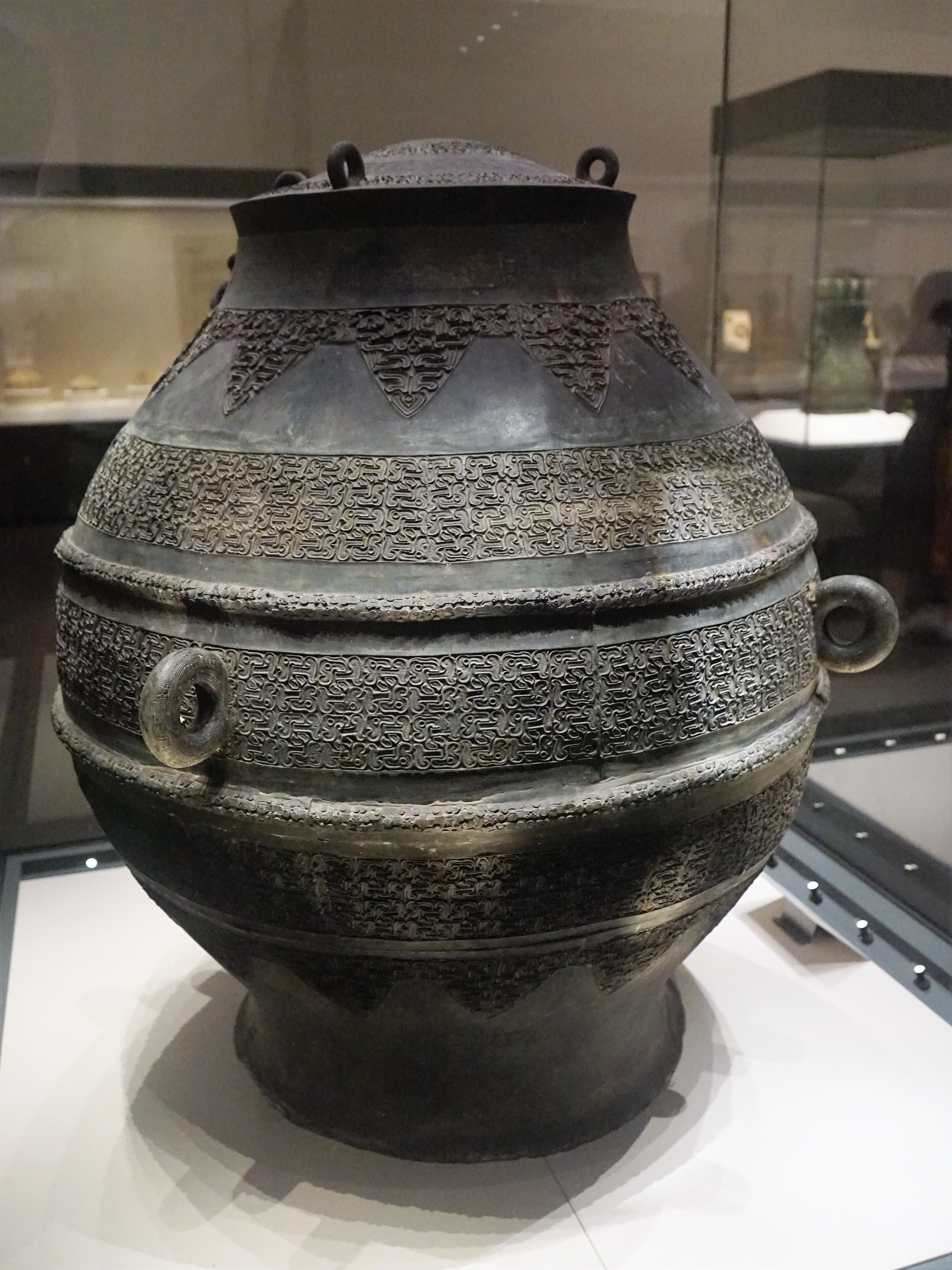 Bronze Fou (wine vessel). Warring States period, Zeng State. Unearthed at Sui County, Hubei, 1978. The fou was commissioned and used by Zeng Hou Yi. This 327.5-kilogram bronze is the biggest and heaviest pre-Qin wine vessel unearthed in China so far.